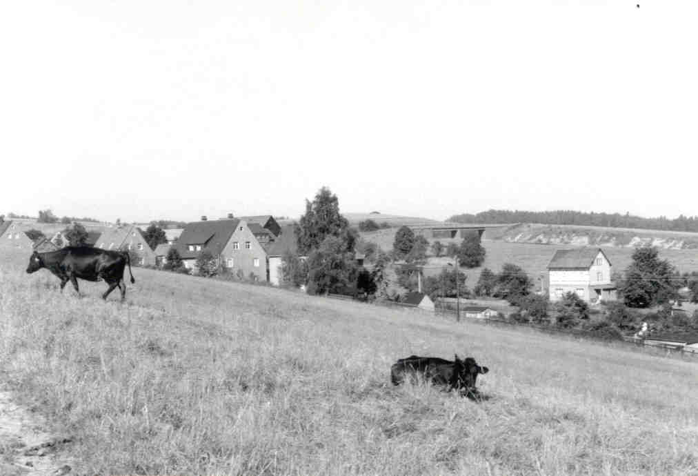 Culitzsch – a former village and now part of Wilkau-Haßlau (Saxony)